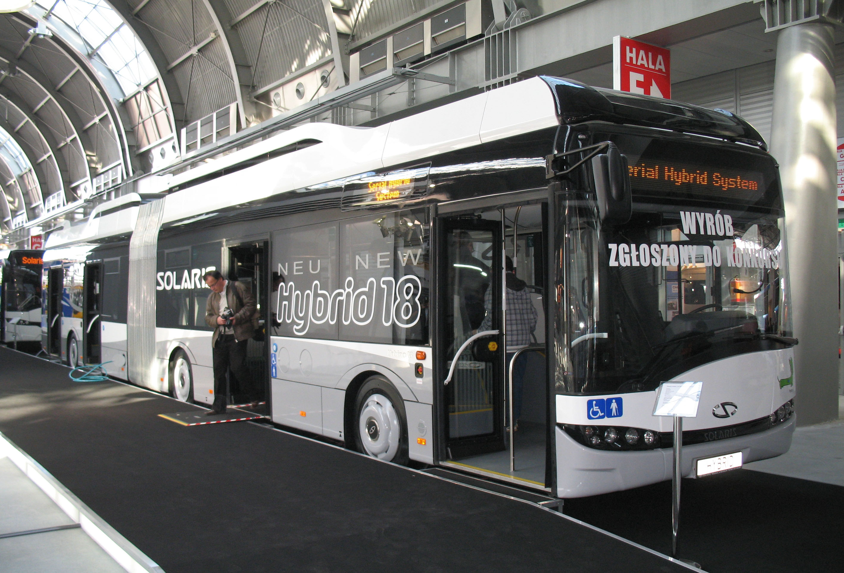 Solaris Urbino 18 Hybrid city bus in Kielce, Poland. Built 2010. Transexpo 2010.